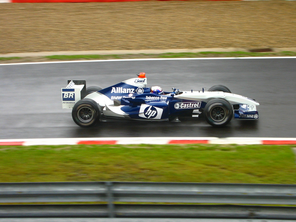 Juan Pablo Montoya driving for WilliamsF1 at the 2004 Belgian Grand Prix.